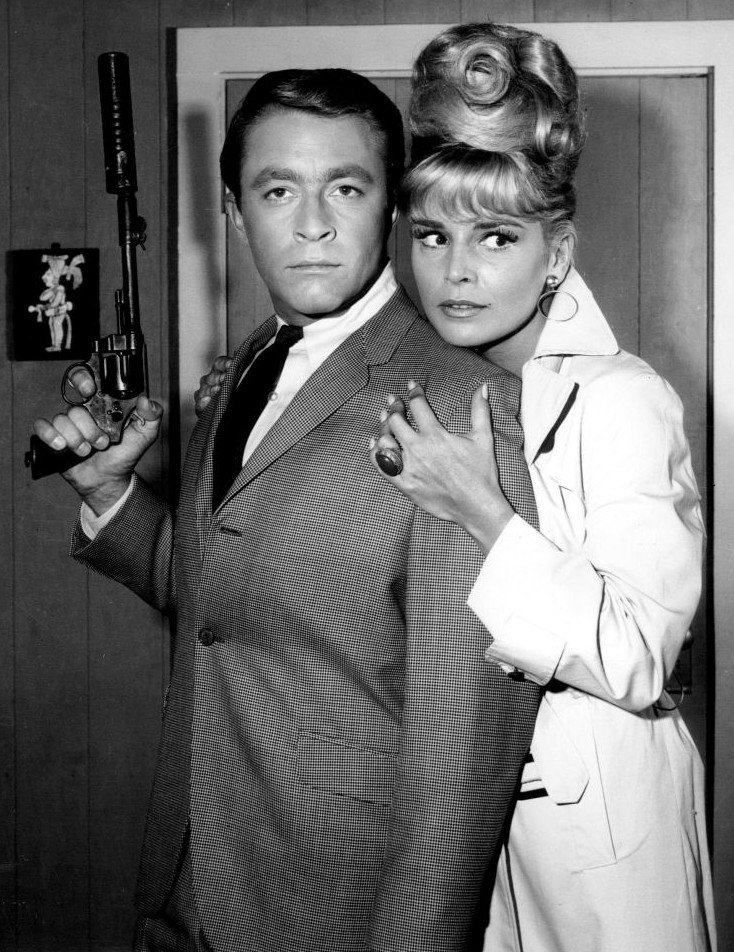 Photo of Bill Bixby as Tim O'Hara and guest star Susanne Cramer from the television program My Favorite Martian.